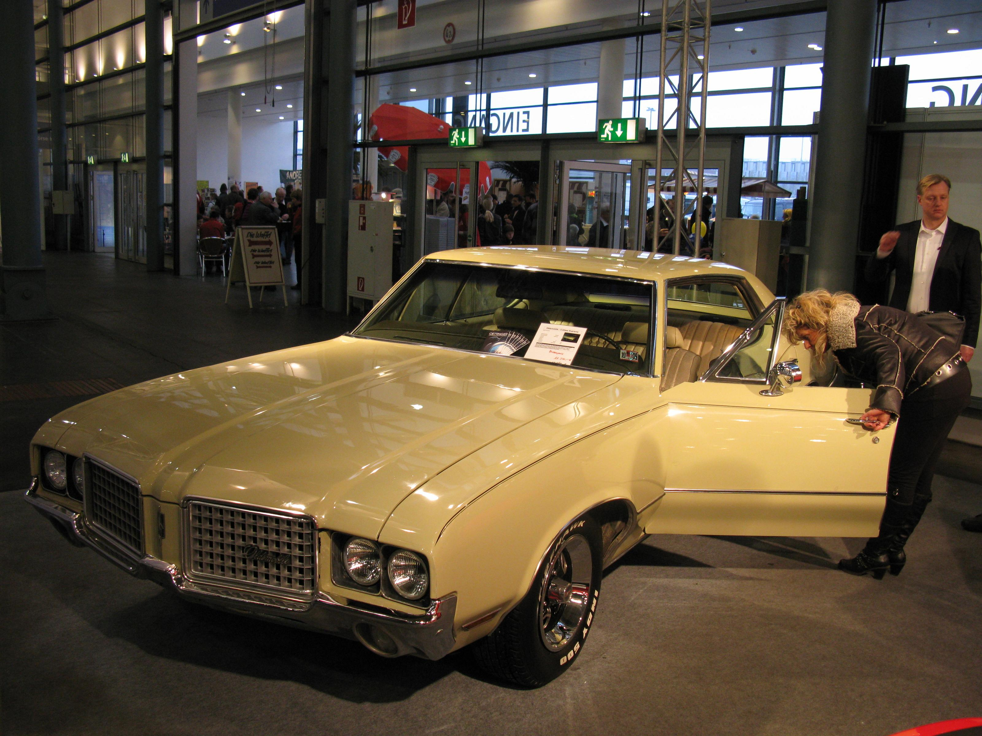 Oldsmobile Cutlass Supreme